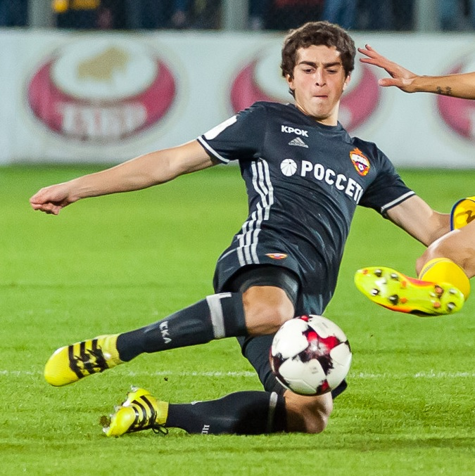 Astemir Gordyushenko in action for PFC CSKA Moscow in a game against FC Rostov.